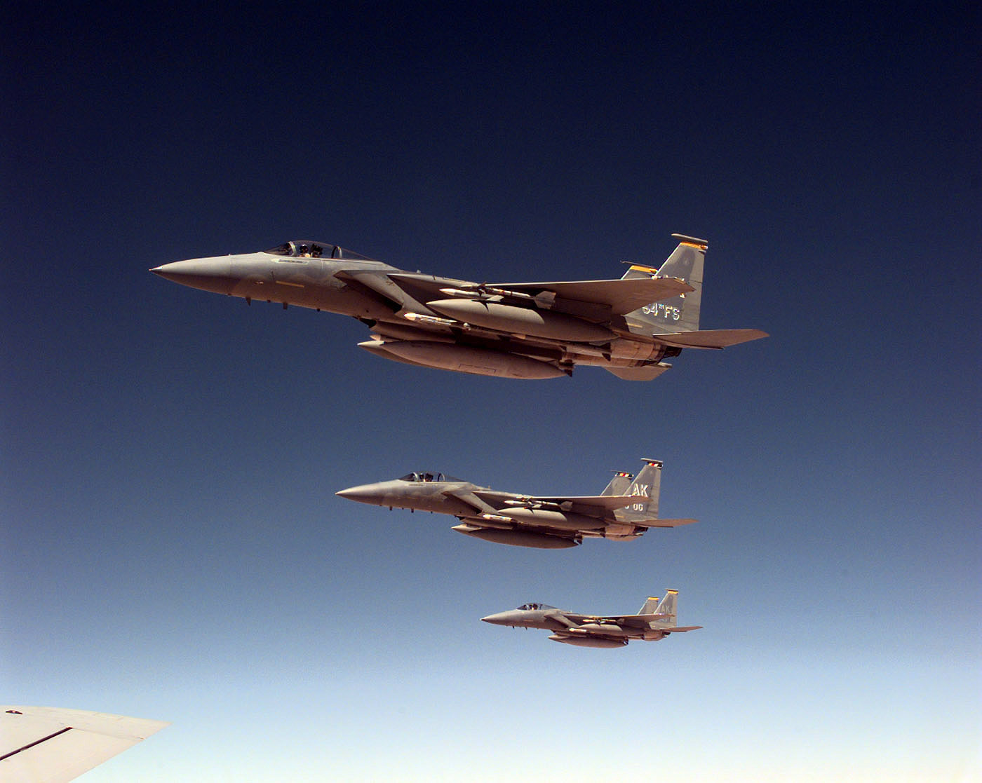 U.S. Air Force F-15C Eagles fly a routine patrol mission over Southern Iraq on April 4, 1998, in support of Operation Southern Watch. The Eagles are operating out of Prince Sultan Air Base, Saudi Arabia, and are part of the 4404th Wing (Provisional). The Eagles are deployed for Southern Watch from the 19th and 54th Fighter Squadrons, Anchorage Air Force Base, Alaska. Southern Watch is the U.S. and coalition enforcement of the no-fly-zone over Southern Iraq. DoD photo by Airman 1st Class Greg L. Davis, U.S. Air Force.